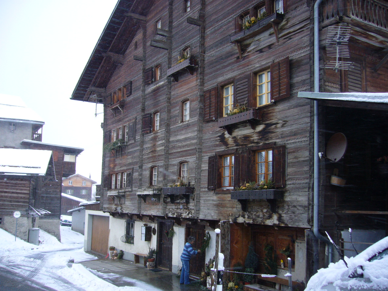 Typical house in Brigels, Village in the canton of Graubünden, Switzerland. Picture taken by Peter Berger, January 2, 2007.